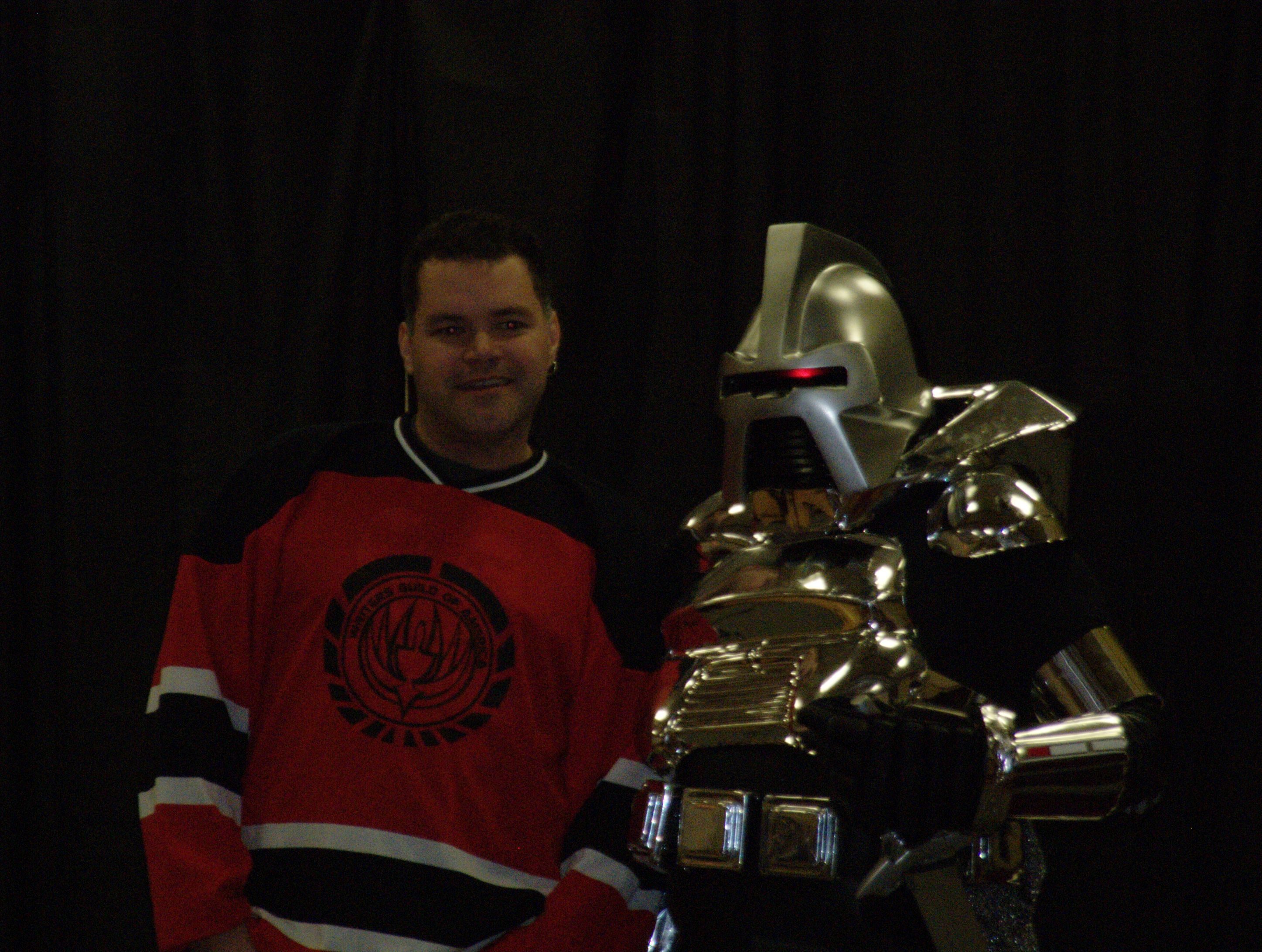 Aaron Douglas and "uncle Bob", an old-timey Cylon, in a dimly lit room at All-Con 2008